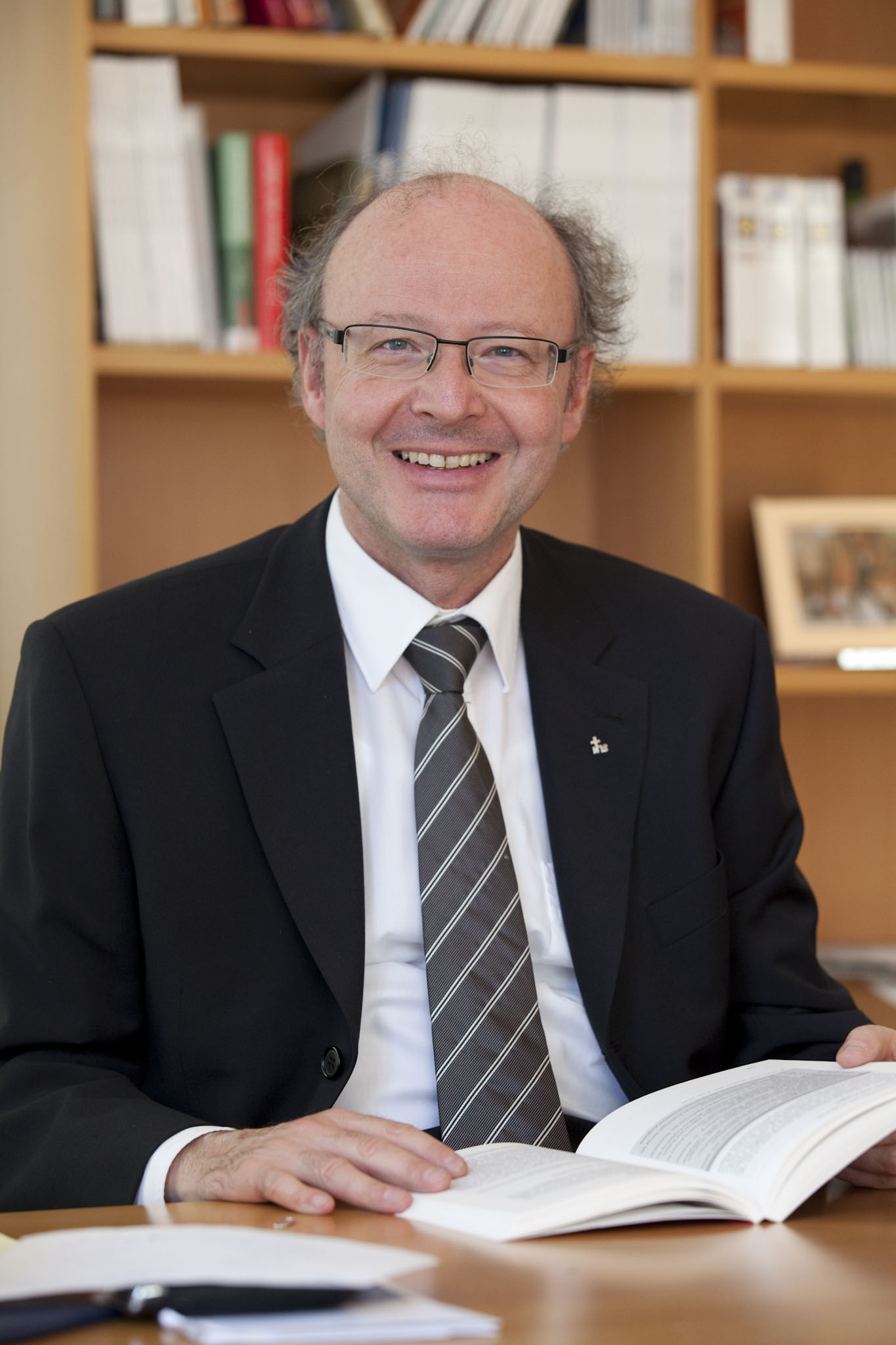 Prof. Dr. Michael Bordt SJ